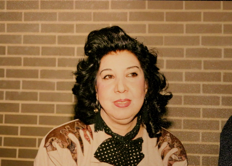 Simin Behbahani - Persian poet. Washington DC, ca. 1990 Photo by Ali Sajjadi